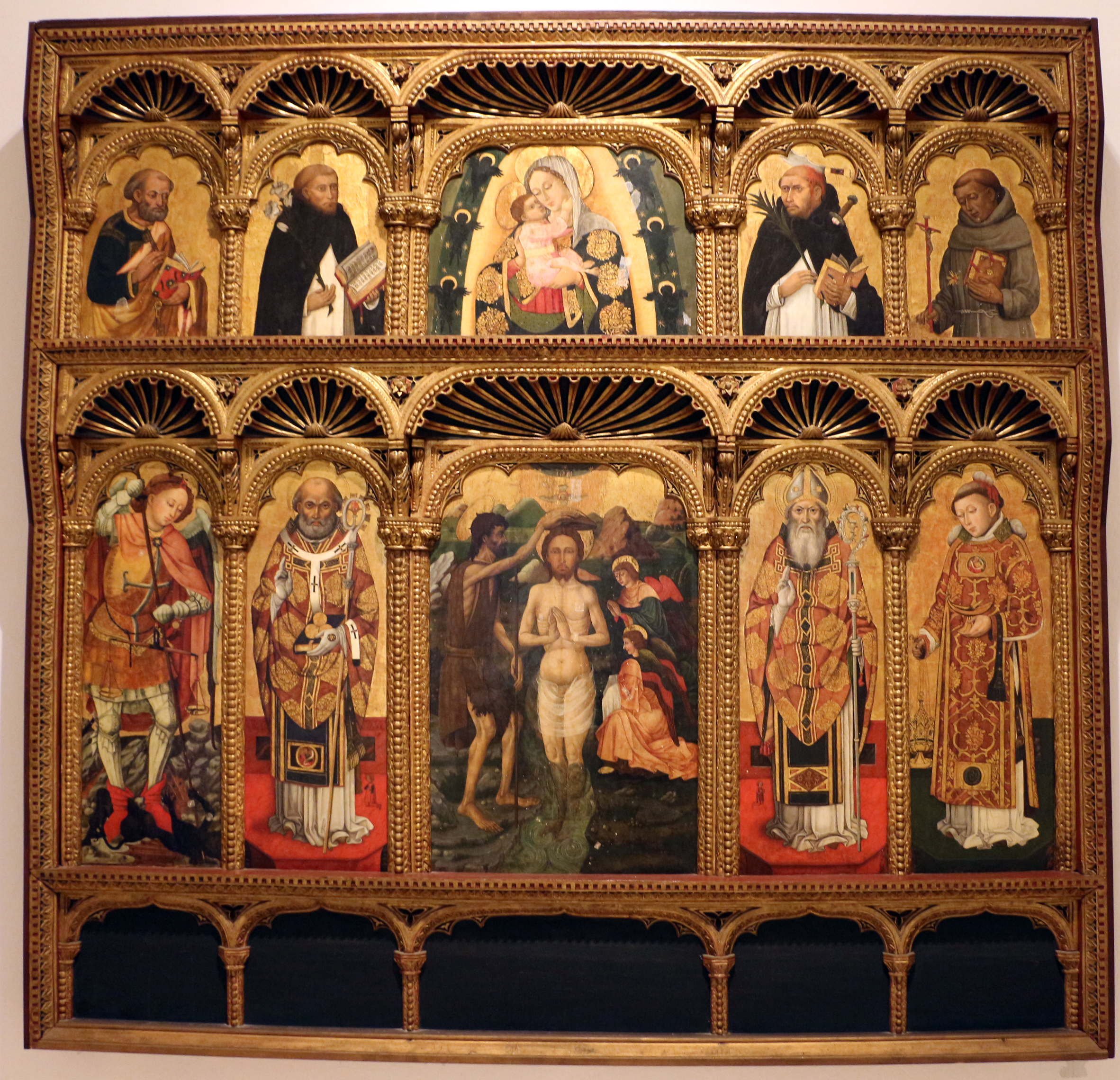 Dominican Church and Monastery in Dubrovnik - Museum